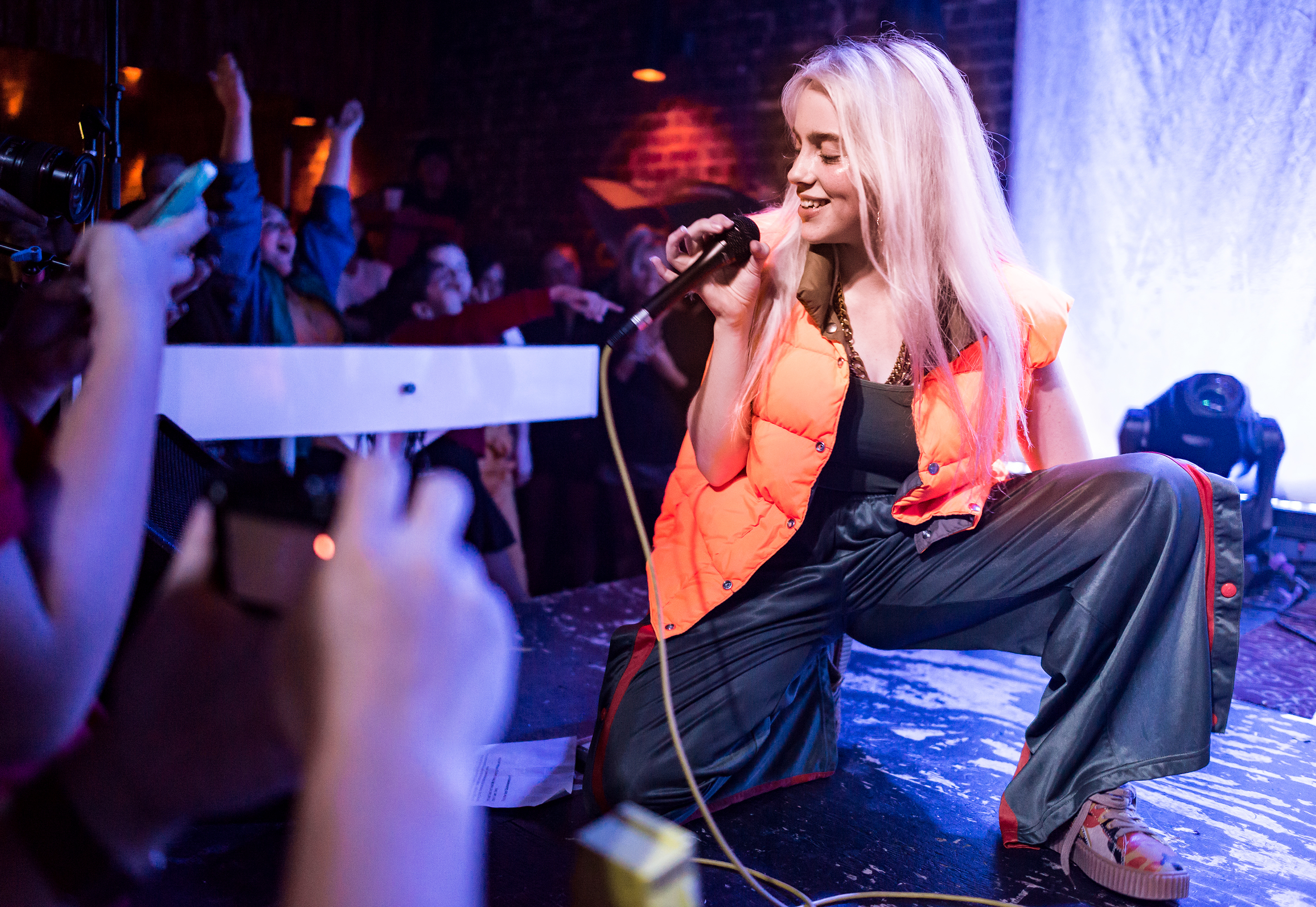 Billie Eilish performing live at The Hi Hat in Highland Park, Los Angeles, California, on Thursday, August 10, 2017.